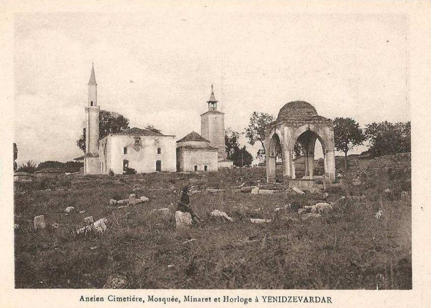 Mosque and Clocktower in Enice Vardar Old Postcard